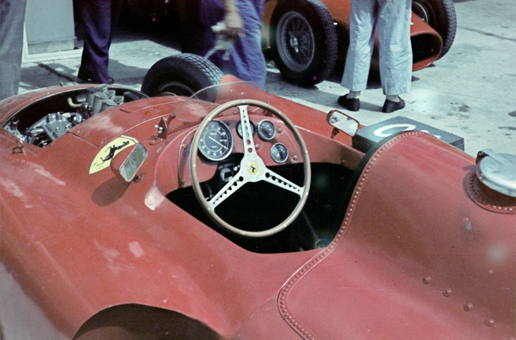 Wooden Steering Wheel Photo by Carlos Alberto Navarro.